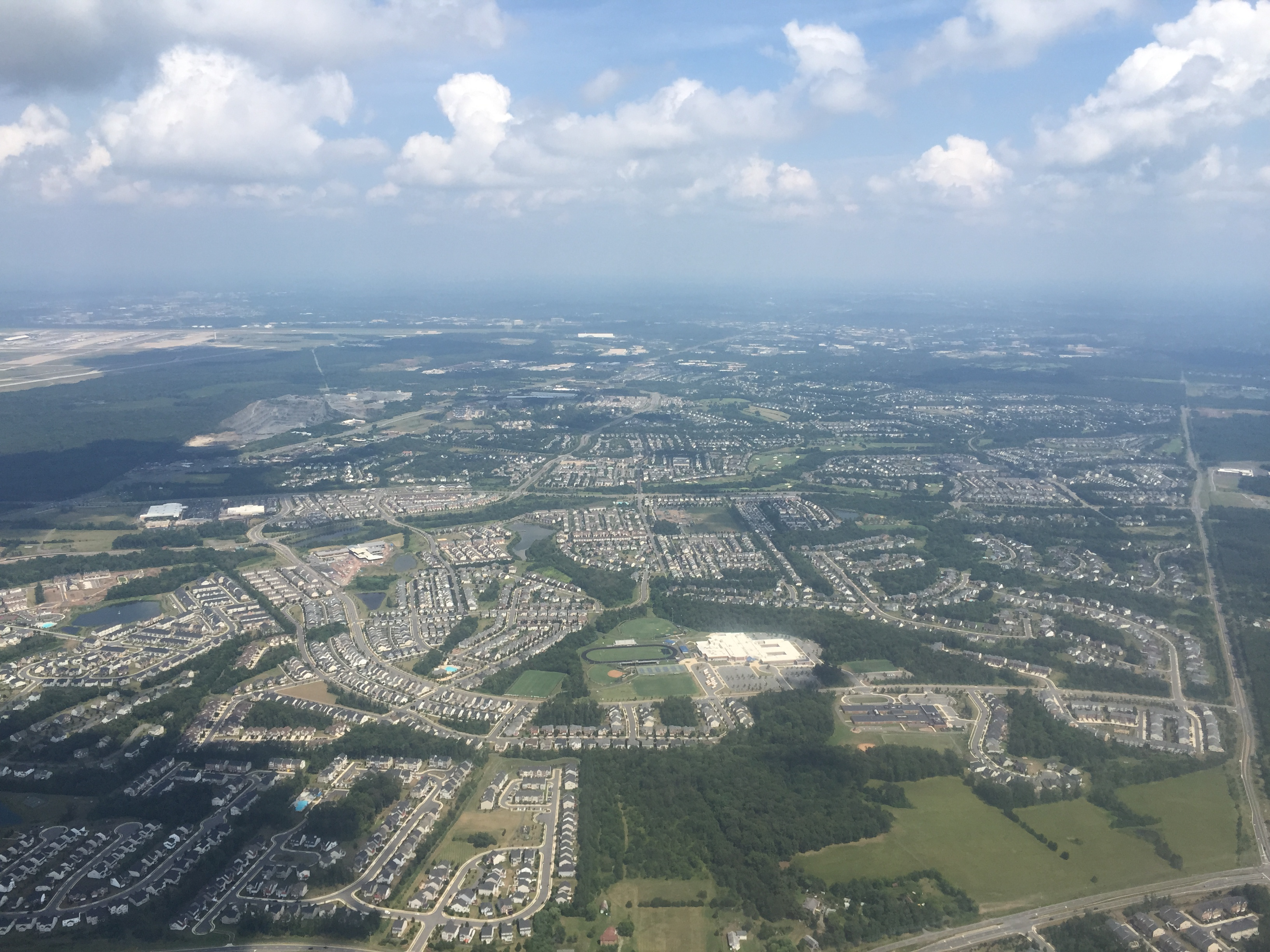 View east across South Riding, Loudoun County, Virginia from a plane departing Washington Dulles International Airport